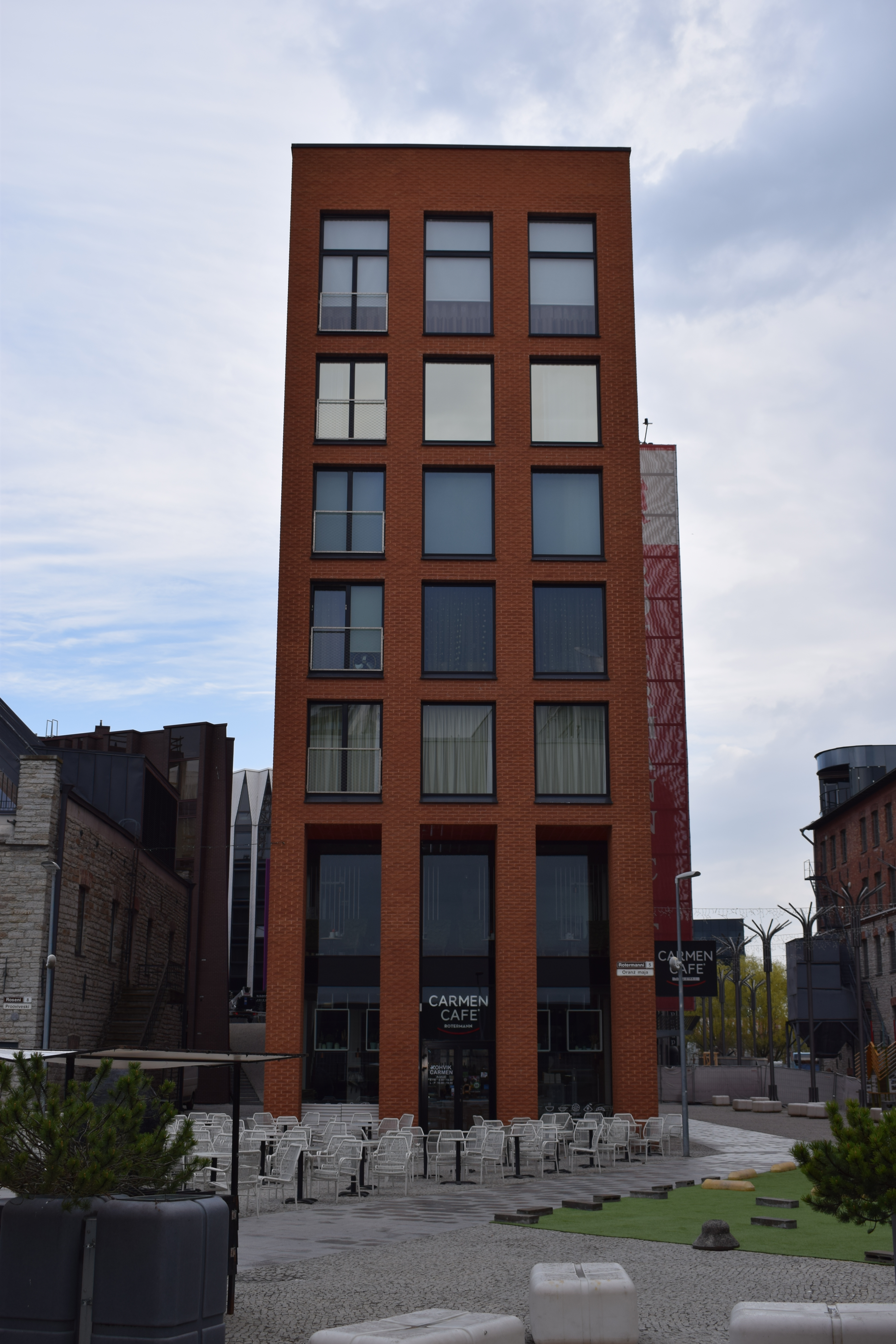 Rotermanni 5